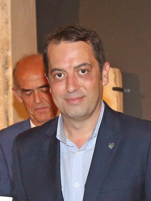 Toledo, 27 de junio de 2019.- El viceconsejero de Cultura en funciones, Jesús Carrascosa, asiste a la VII edición de los Premios de la Real Academia de Bellas Artes y Ciencias Históricas de Toledo, en el Museo de los Concilios. En la imagen, la diputada provincial de Cultura, Ana Gómez, entrega el premio en la categoría de Patrimonio a la conmemoración del V centenario de la Colegiata del Santísimo Sacramento de Torrijos (1518-2018) que recoge el alcalde de la localidad, Juan José Gómez Hidalgo. (Foto: Álvaro Ruiz // JCCM)